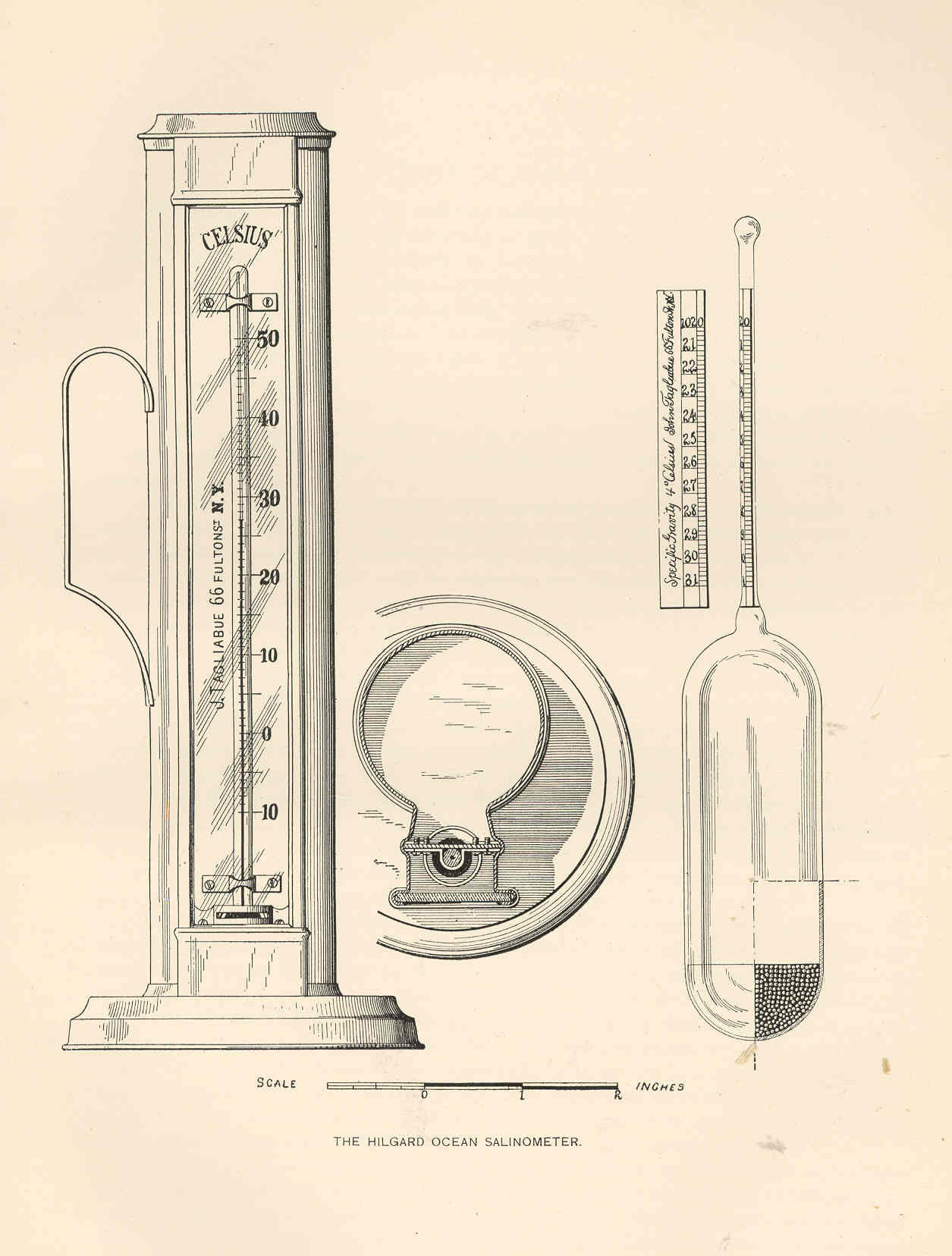 Hilgard Ocean Salinometer Subject: Salinity--Measurement--Equipment and supplies, Seawater--Analysis--Equipment and supplies Tag: Vessels